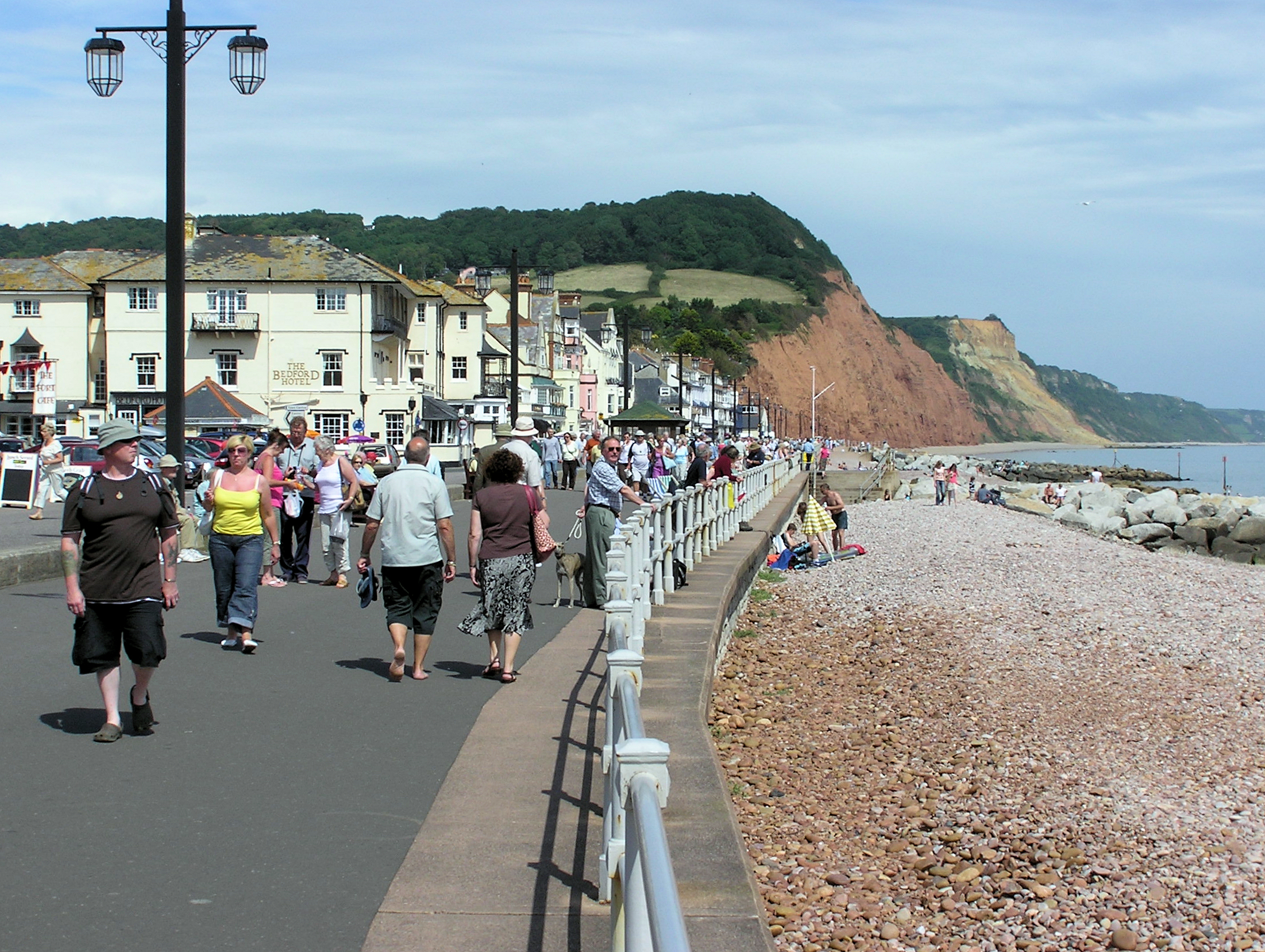 Sidmouth sea front, Devon, England. The red cliff is Salcombe Hill Cliff. The red rock is of Jurassic age, overlaid at the very top with Cretaceous rocks. The view is looking roughly east. Taken by Adrian Pingstone in July 2007 and released to the public domain.